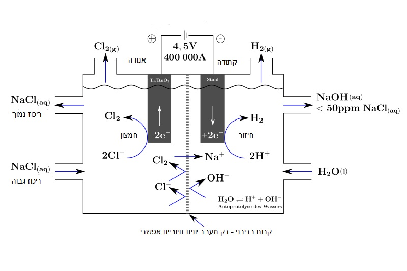 membrane cell, Chloralkali process